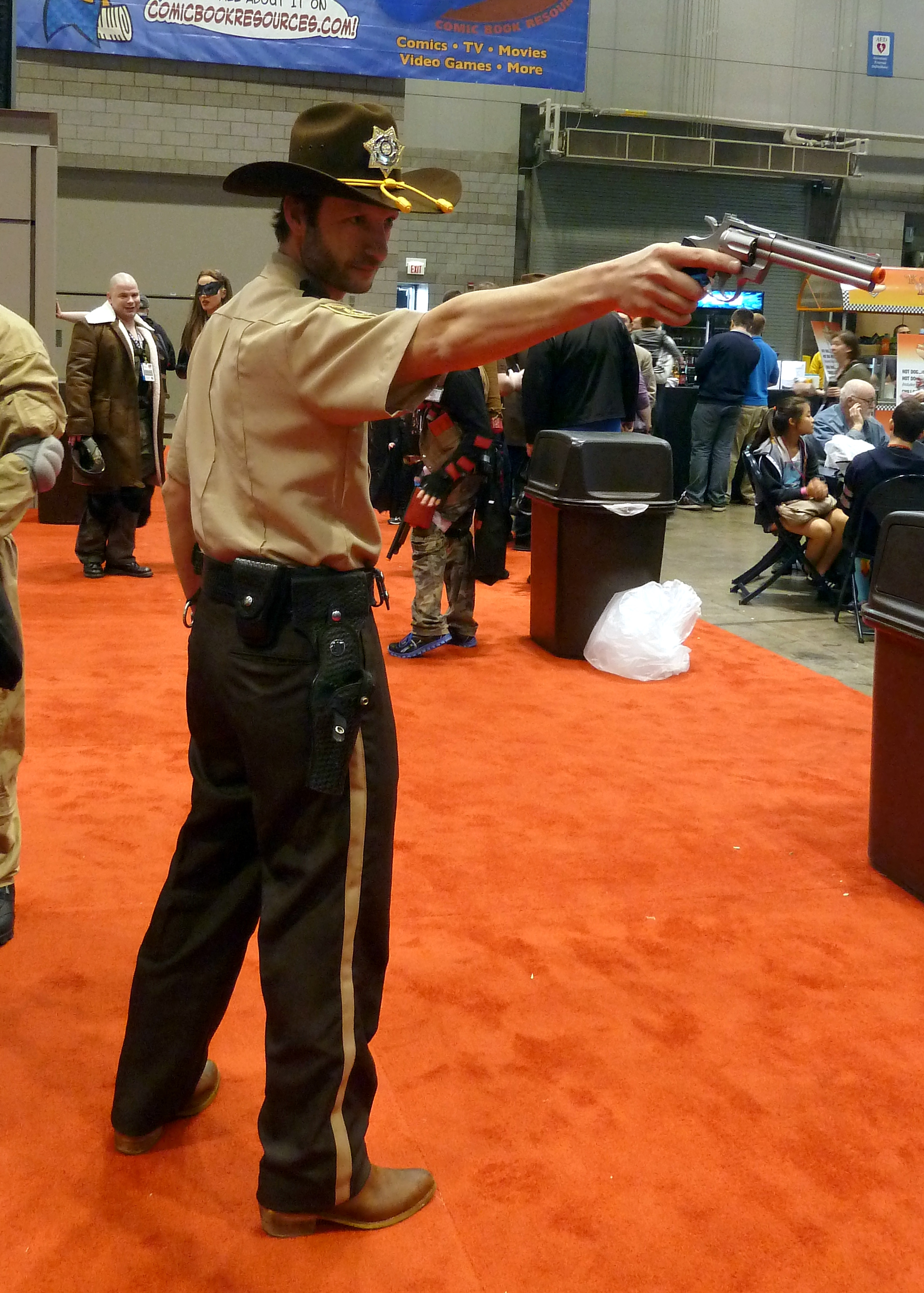 Rick Grimes of Walking Dead Cosplay at the 2013 Chicago Comic & Entertainment Expo (C2E2).